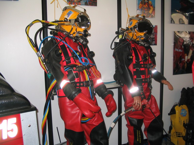 Commercial diving equipment in 2006 EUDI SHOW exhibition in Genova